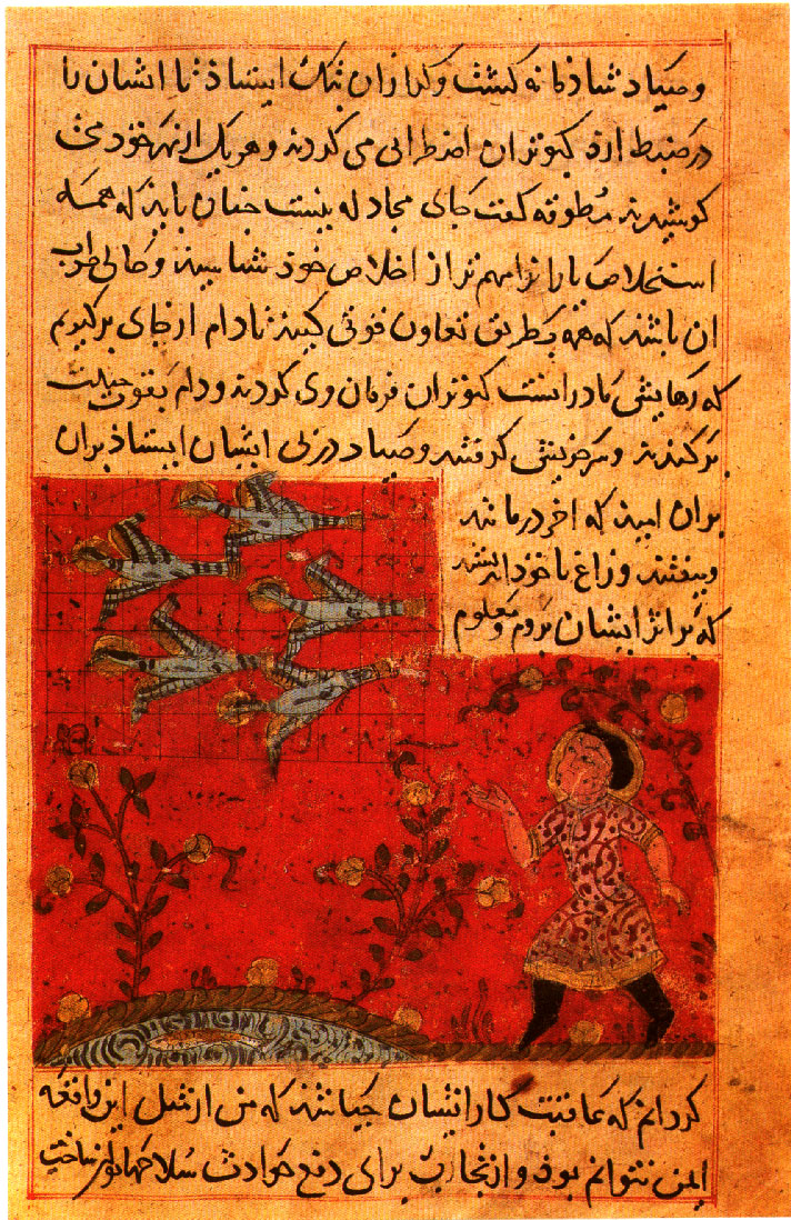 Story of "Ringneck pigeon" from Kalila and Dimna, in Persian.